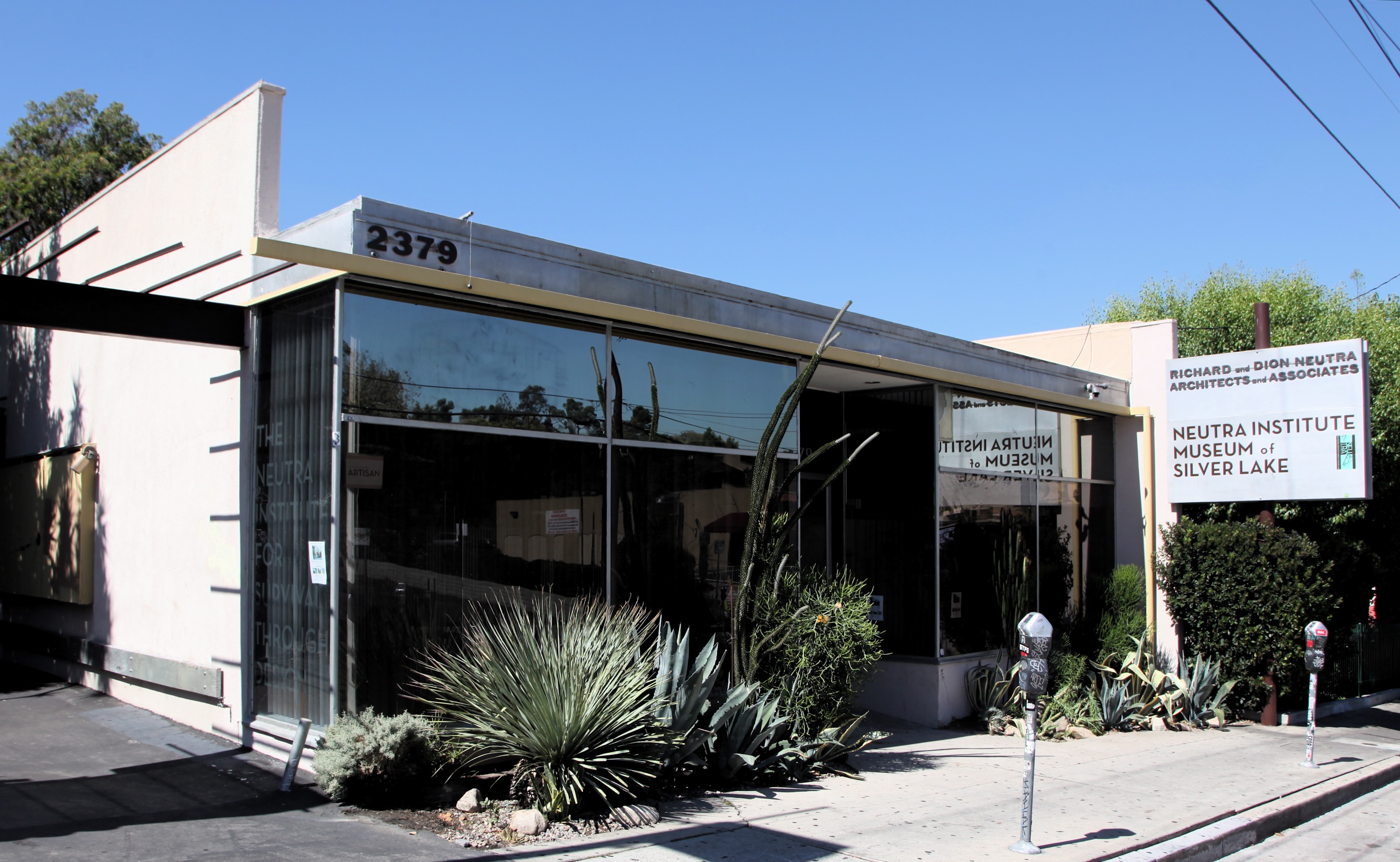 Neutra Office Bldg., 2379 Glendale Blvd.